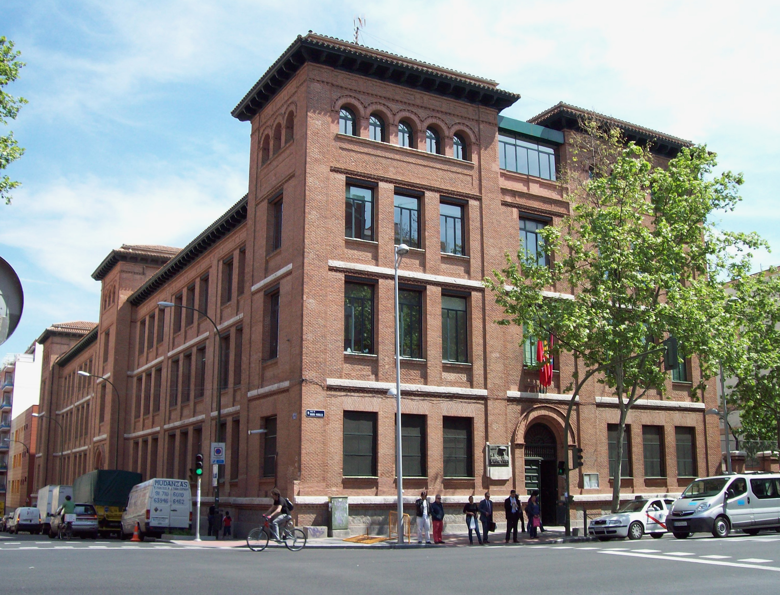 View, from the north-west angle, of Grupo Escolar Jaime Vera (a school) in Madrid (Spain), at 162 Calle de Bravo Murillo (street) in Tetuán district. It was projected in 1923 by architect Antonio Flórez Urdapilleta (1877–1941) and finished in 1929.